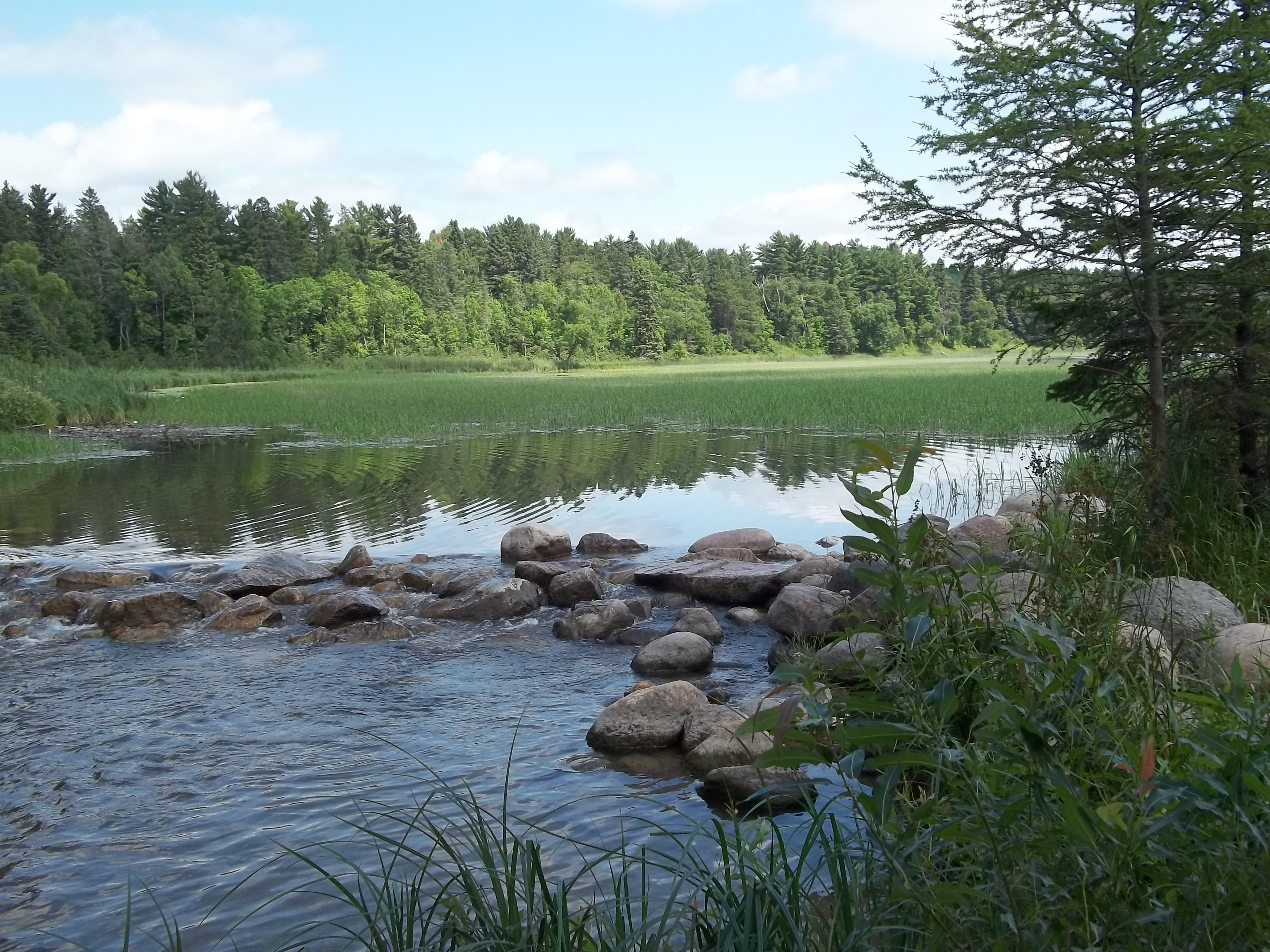 Headwaters of the Mississippi River. Above the rocks is the north end of Minnesota's Lake Itasca, which begins the flow of the Mississippi River to its eventual end point in the Gulf of Mexico.